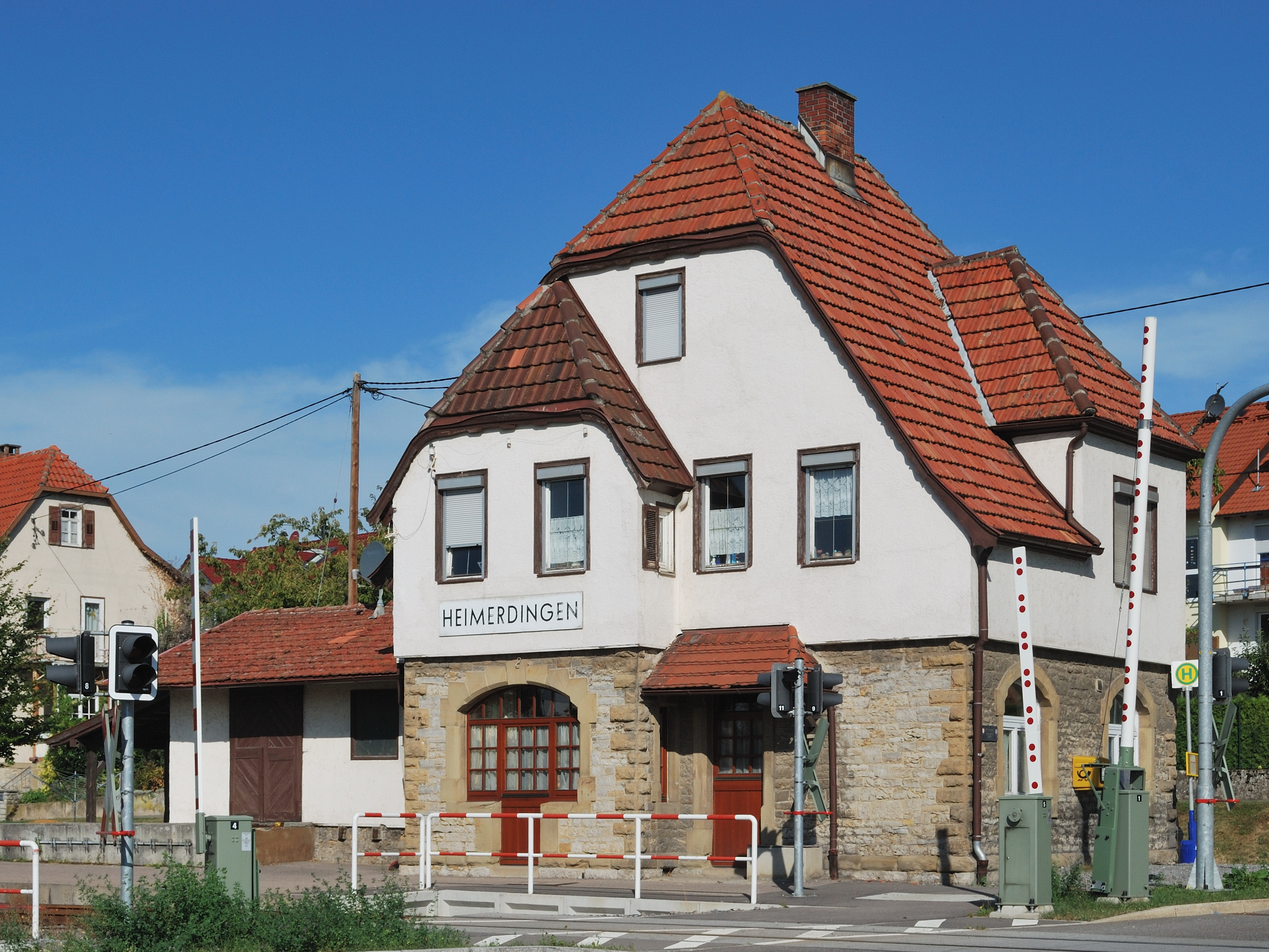 The railway building in Heimerdingen in Baden-Württemberg in Germany. It was built in 1905/06. The railway traffic began on August the 13th, 1906.